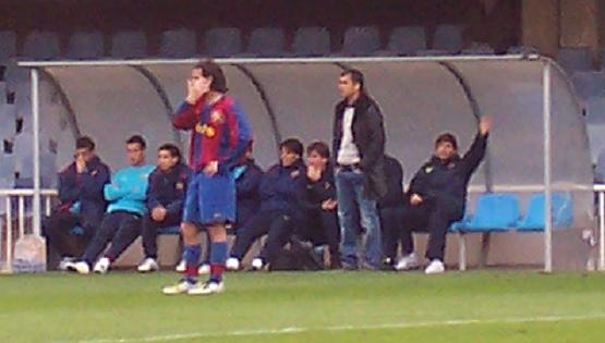 Josep Guardiola as coach of FC Barcelona B in the match against CF Vilanova i La Geltrú, 24 February 2008. Guardiola is standing before his dug-out. His assistant Tito Vilanova is on the far right.